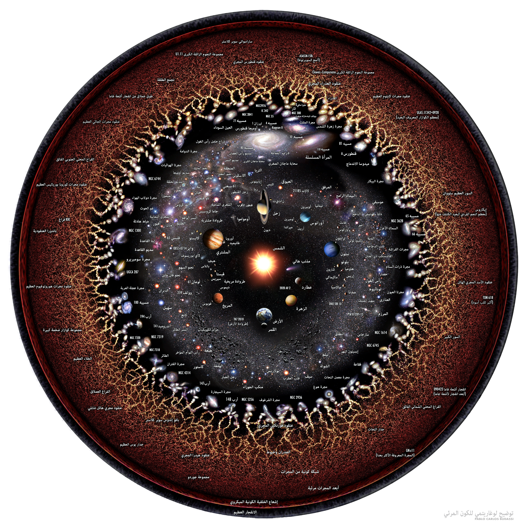 Logarithmic scale conception of the observable universe with the Solar System at the center, inner and outer planets, Kuiper belt objects, Alpha Centauri, Perseus Arm, Milky Way galaxy, Andromeda galaxy, nearby galaxies, Cosmic Web, Cosmic microwave radiation and Big Bang's invisible plasma on the edge. Distance from Earth increases exponentially from the center to the edge. Celestial bodies are shown enlarged to appreciate their shapes.